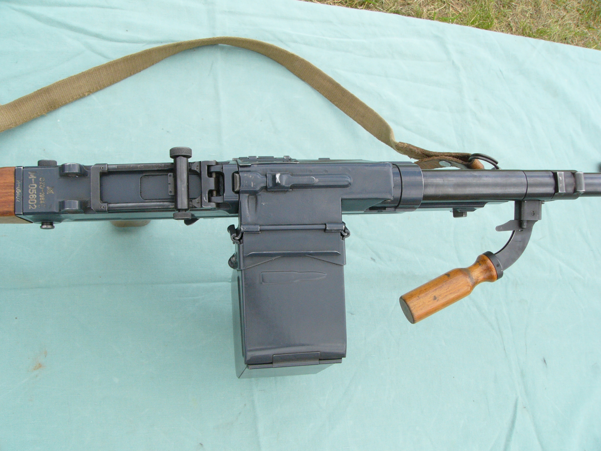 machine gun UK-L vzor 59, Uk vz. 59, detail, view from above